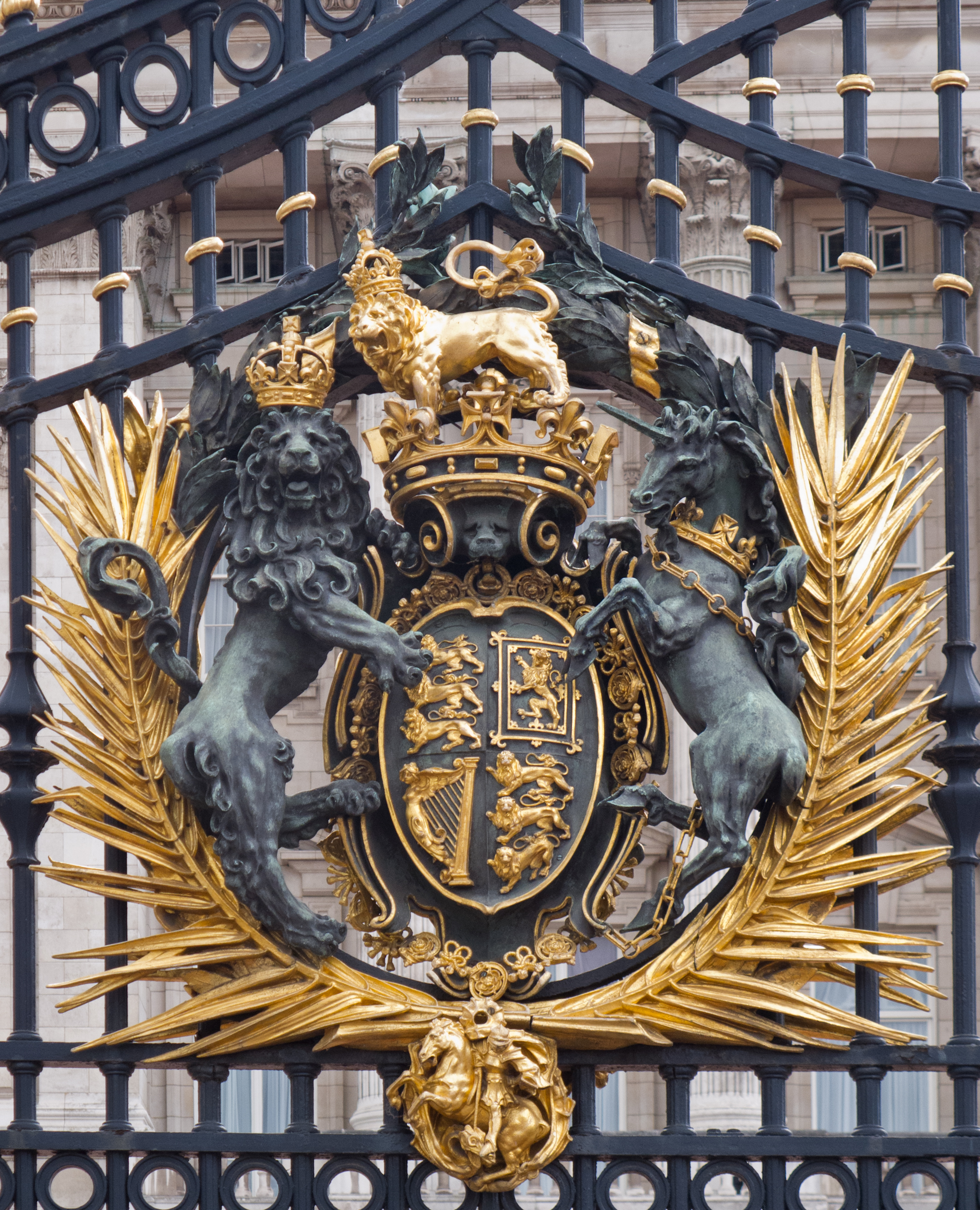 Coat of arms of the United Kingdom in the gate of Buckingham Palace, London, England.